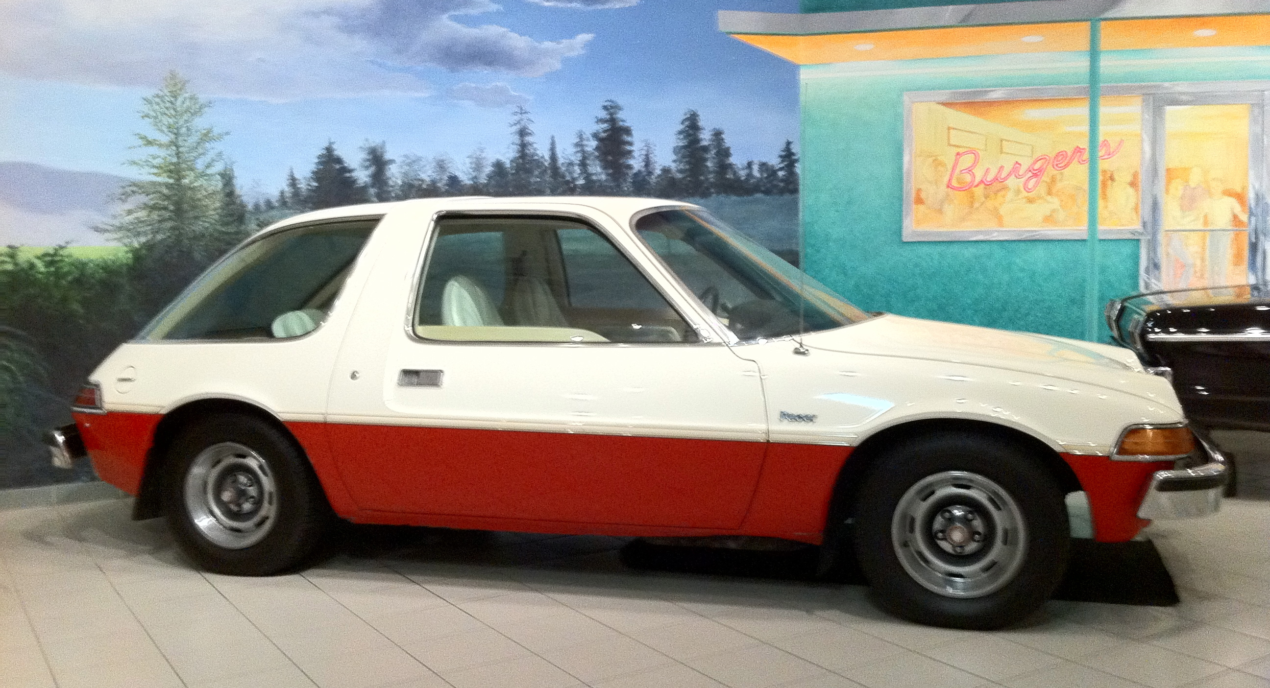 1975 AMC Pacer X coupe, by American Motors Corporation. Right side profile. One of the cars in the permanent collection at the Antique Automobile Club of America Museum, located in Hershey, Pennsylvania. The AACA is premier car club in the world focused on antique cars, trucks, motorcyles, and their history.